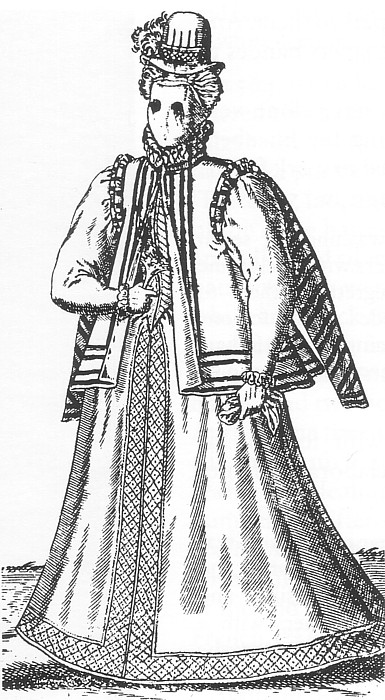 "In this fashion noble women either ride or walk up and down." An illustration of a 16th-century woman wearing a visard mask.